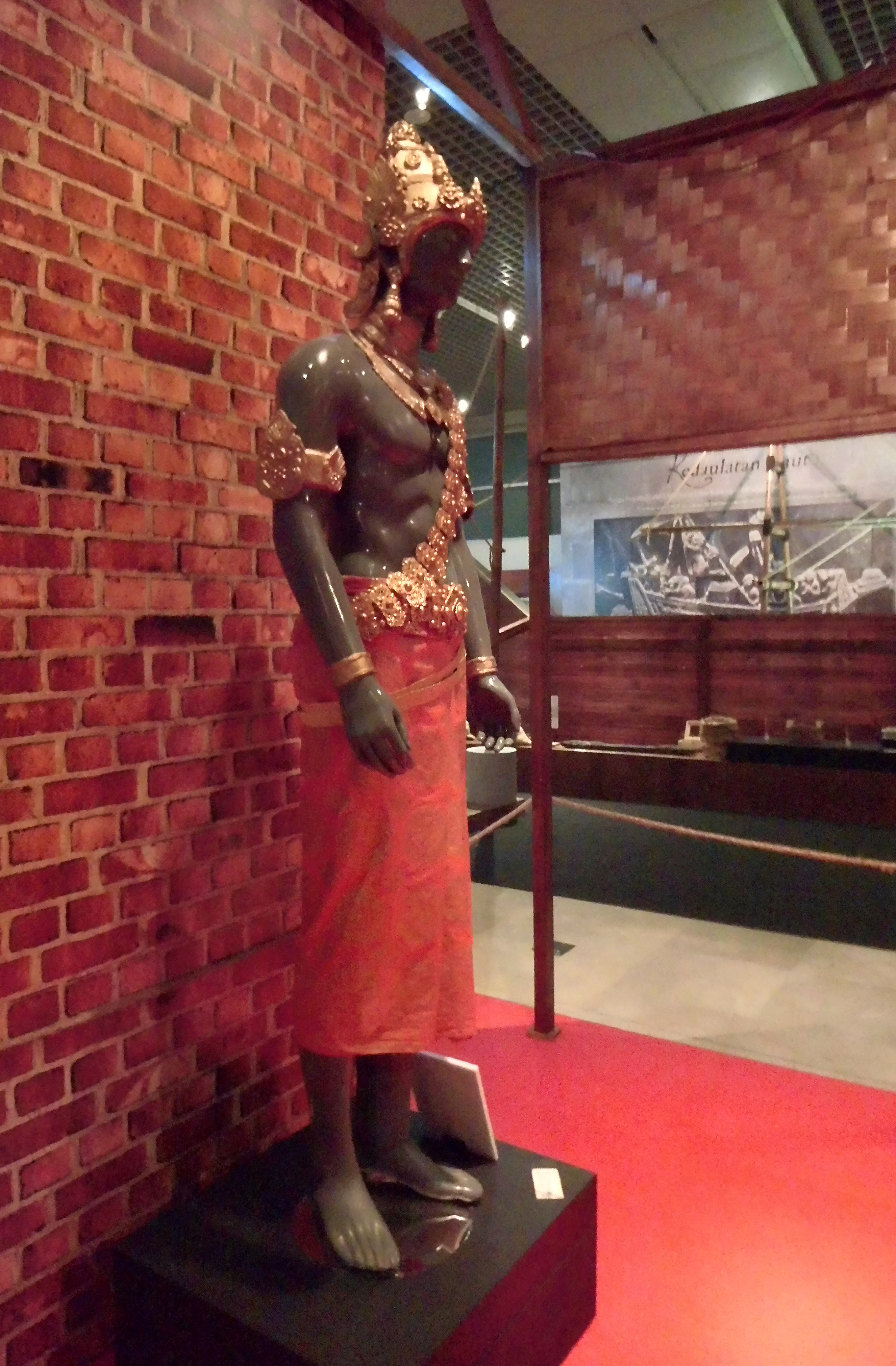 The depiction of Balaputradewa, one of the great king of Srivijaya. It demonstrate the fashion of royalty in 9th century Sumatra, displayed in "Kedatuan Sriwijaya" exhibition in November 2017. National Museum of Indonesia, Jakarta, Indonesia.